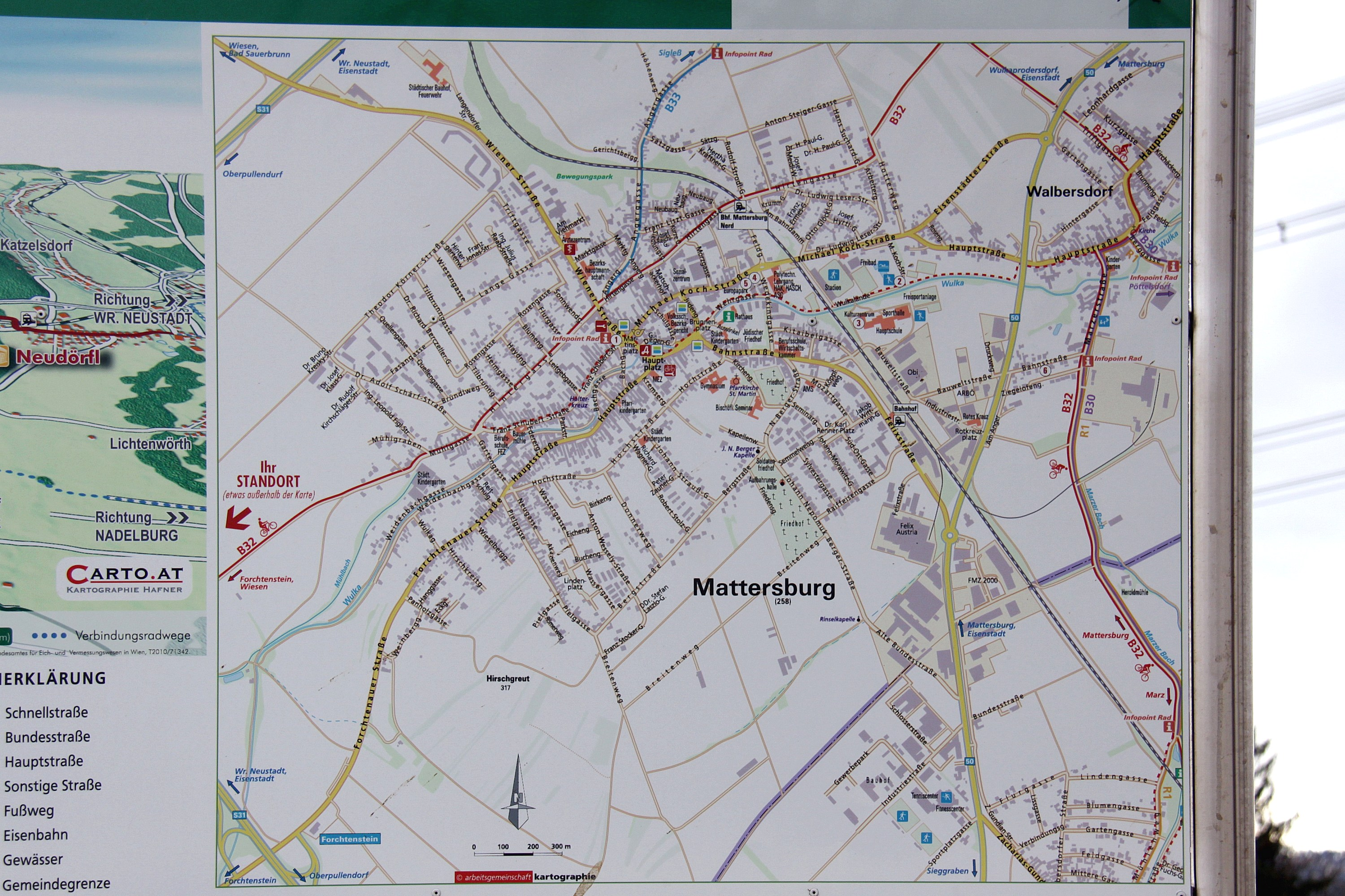 Map of Mattersburg.